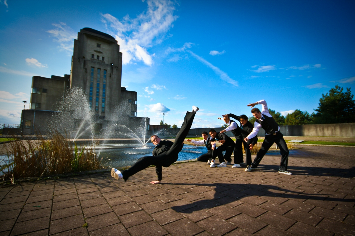 Come Correct Breakdance Crew